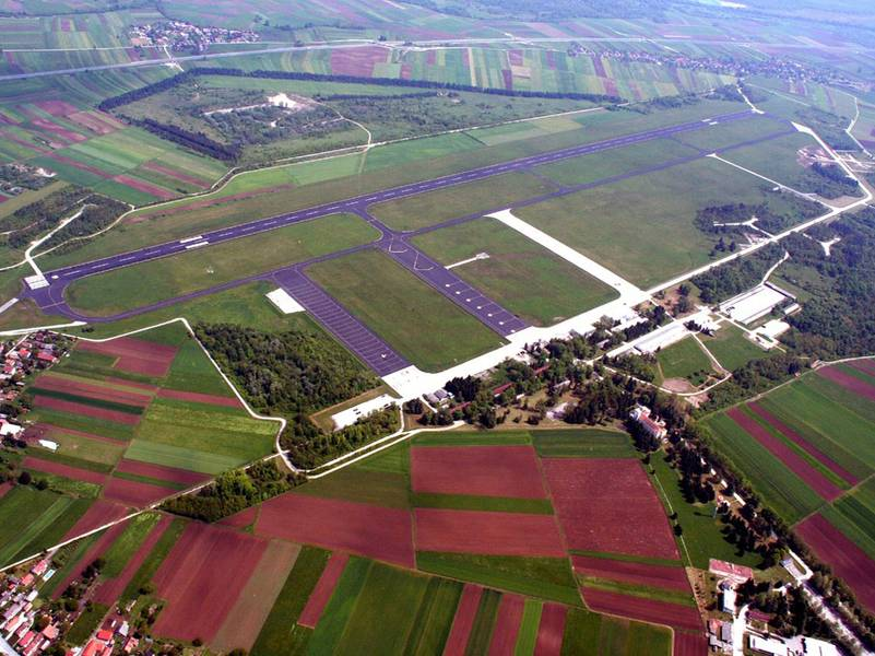 Vojašnica Cerklje ob Krki